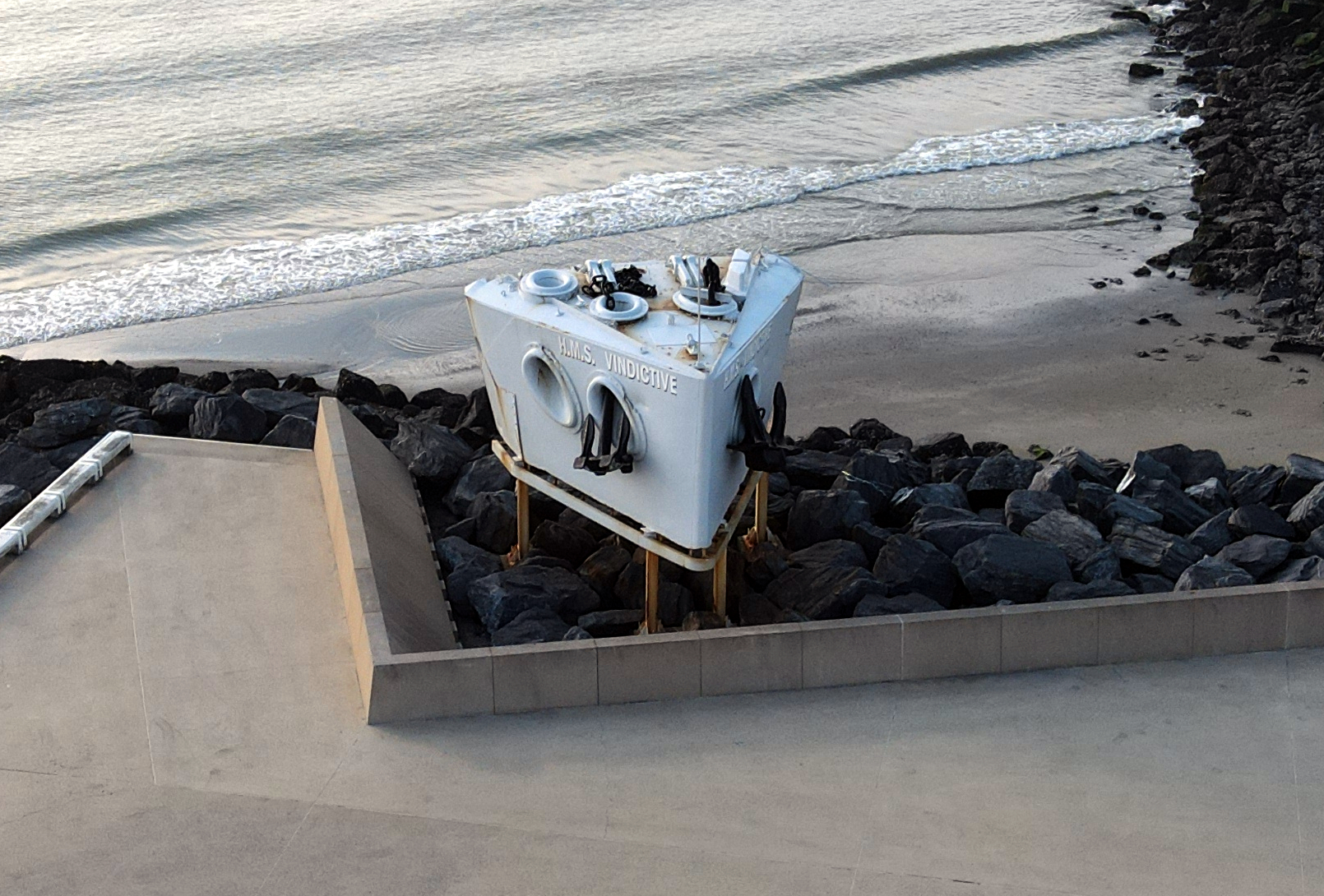 Picture of the monument consisting of the bow of the sunken battle cruiser HMS Vindictive. Shown on its second and current (2020) location on the left bank of the harbour in Ostend, Belgium